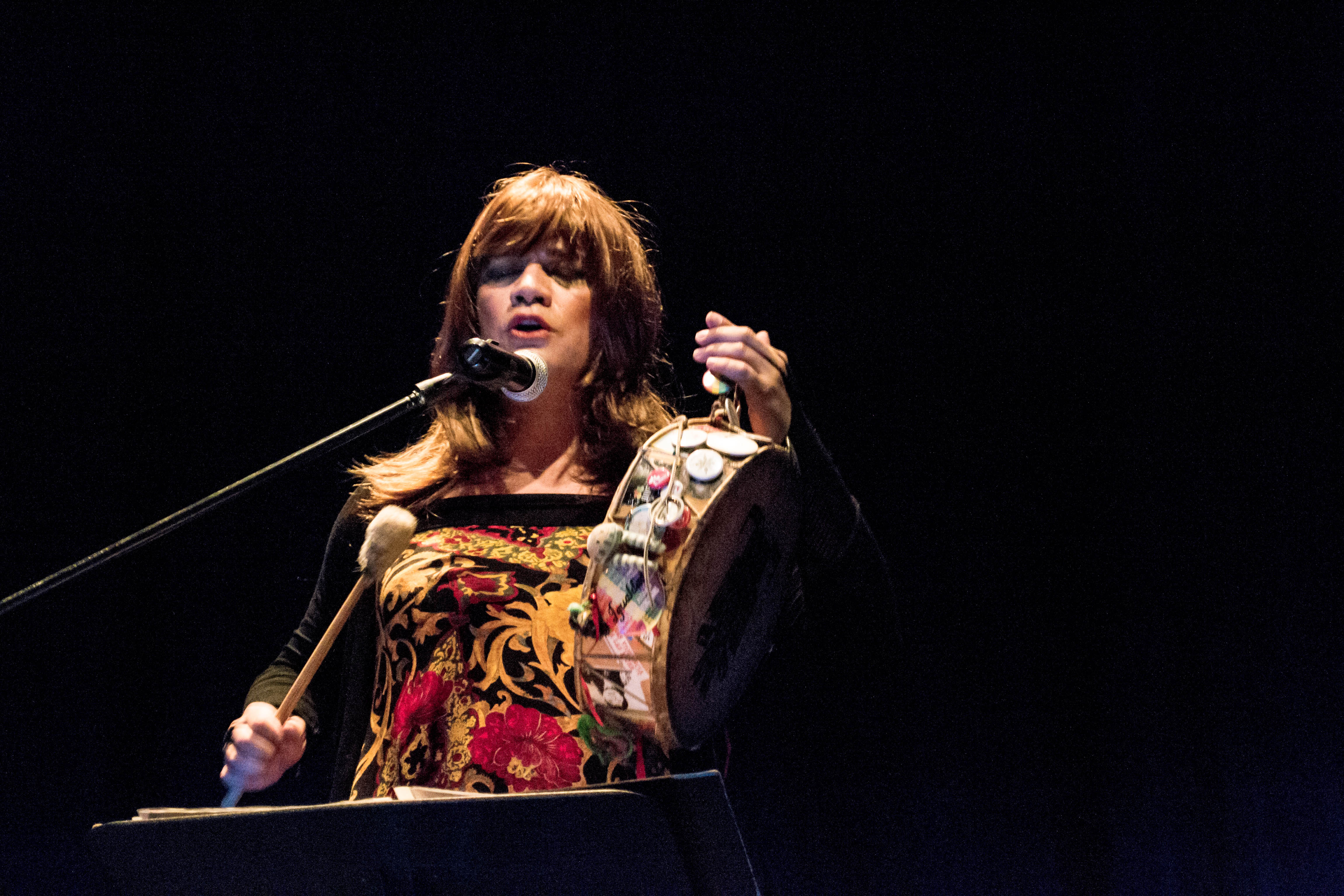 Argentinean actress and singer Susy Shock